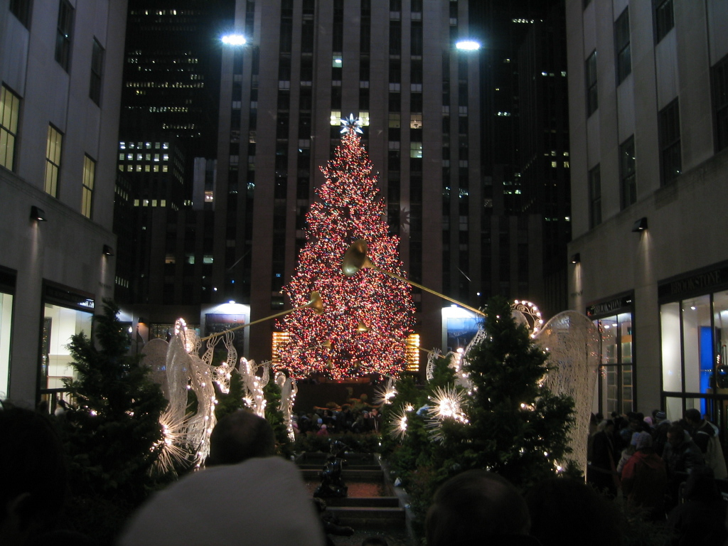 Rockefeller Center Christmas Tree of 2005